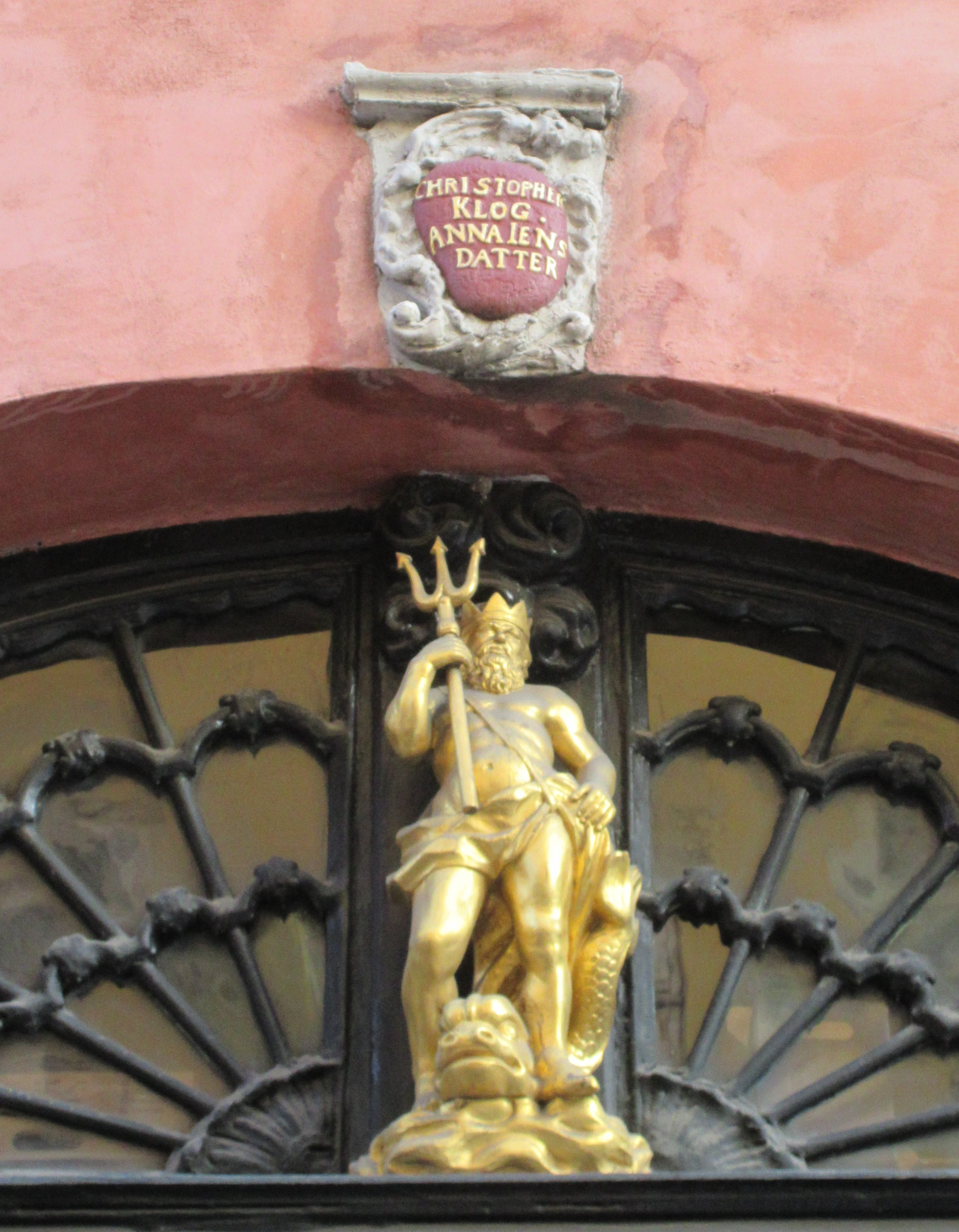 Neptune figure and keystone with inscruption above the gate at Niels Hemmingsens Gade 32 in Copenhagen, Denmark